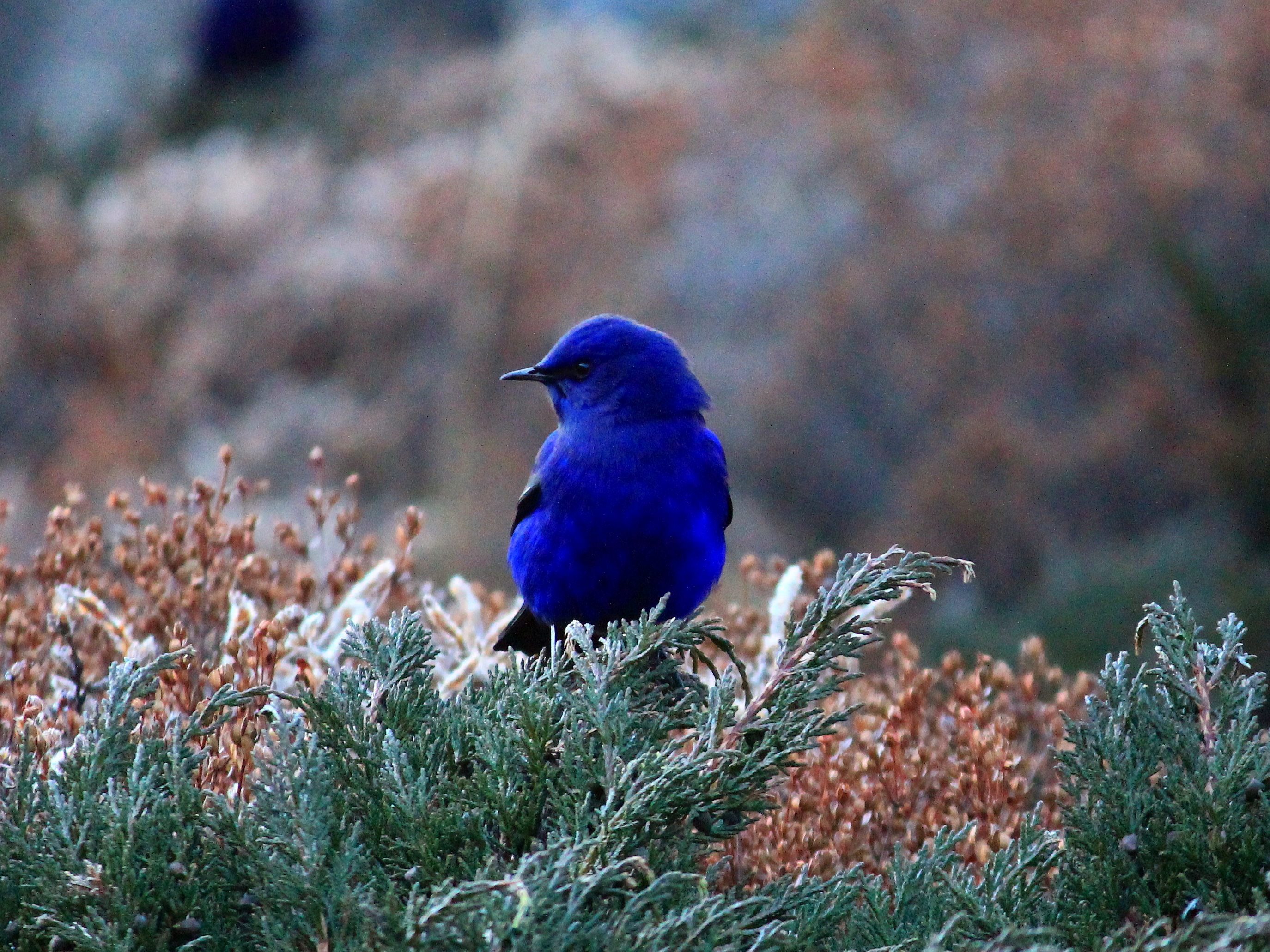 Grandala Bird found at about 4570 m near Goechala pass in the Kanchenjunga National Park, Sikkim, India